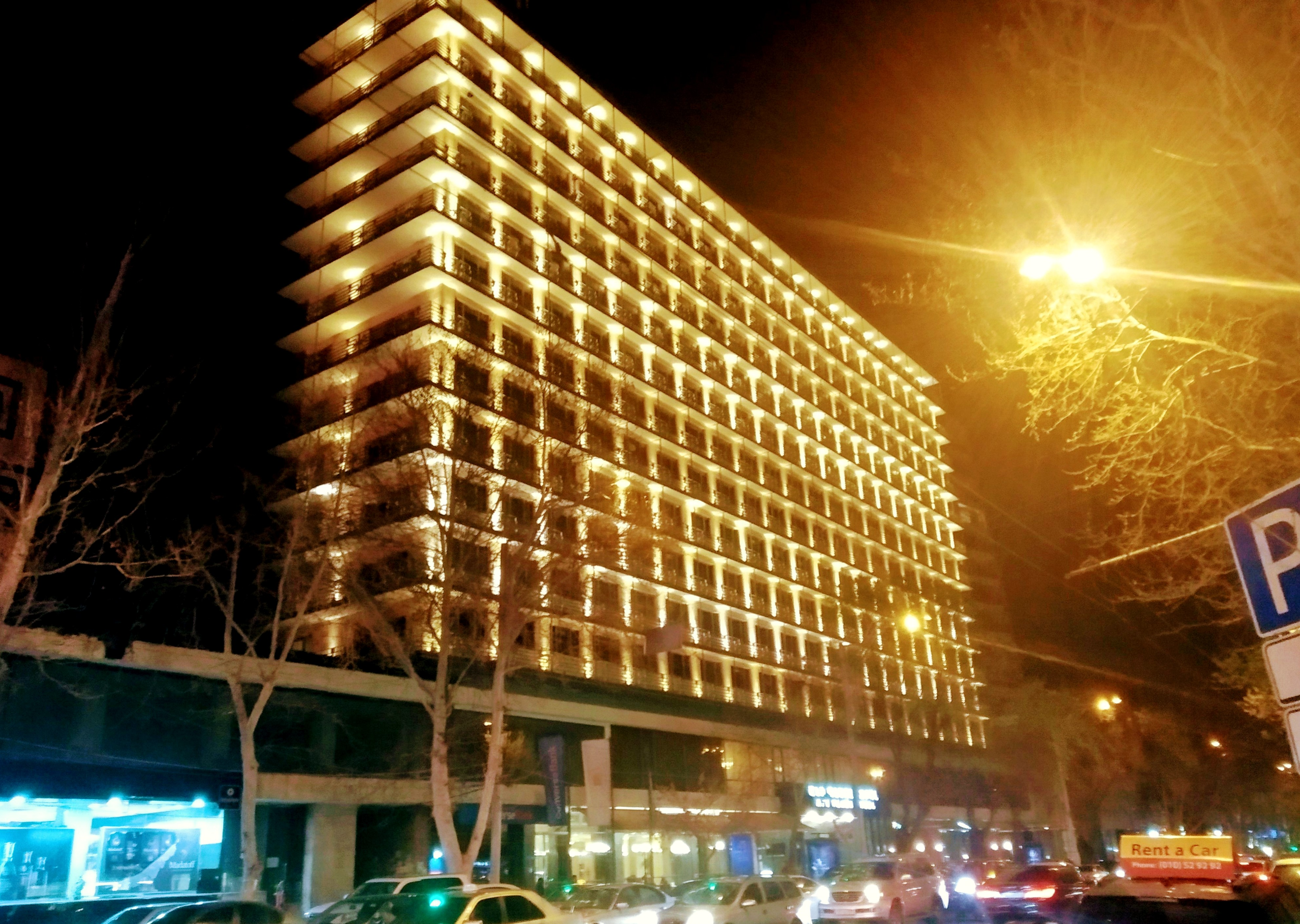 Ani Plaza Hotel, Yerevan